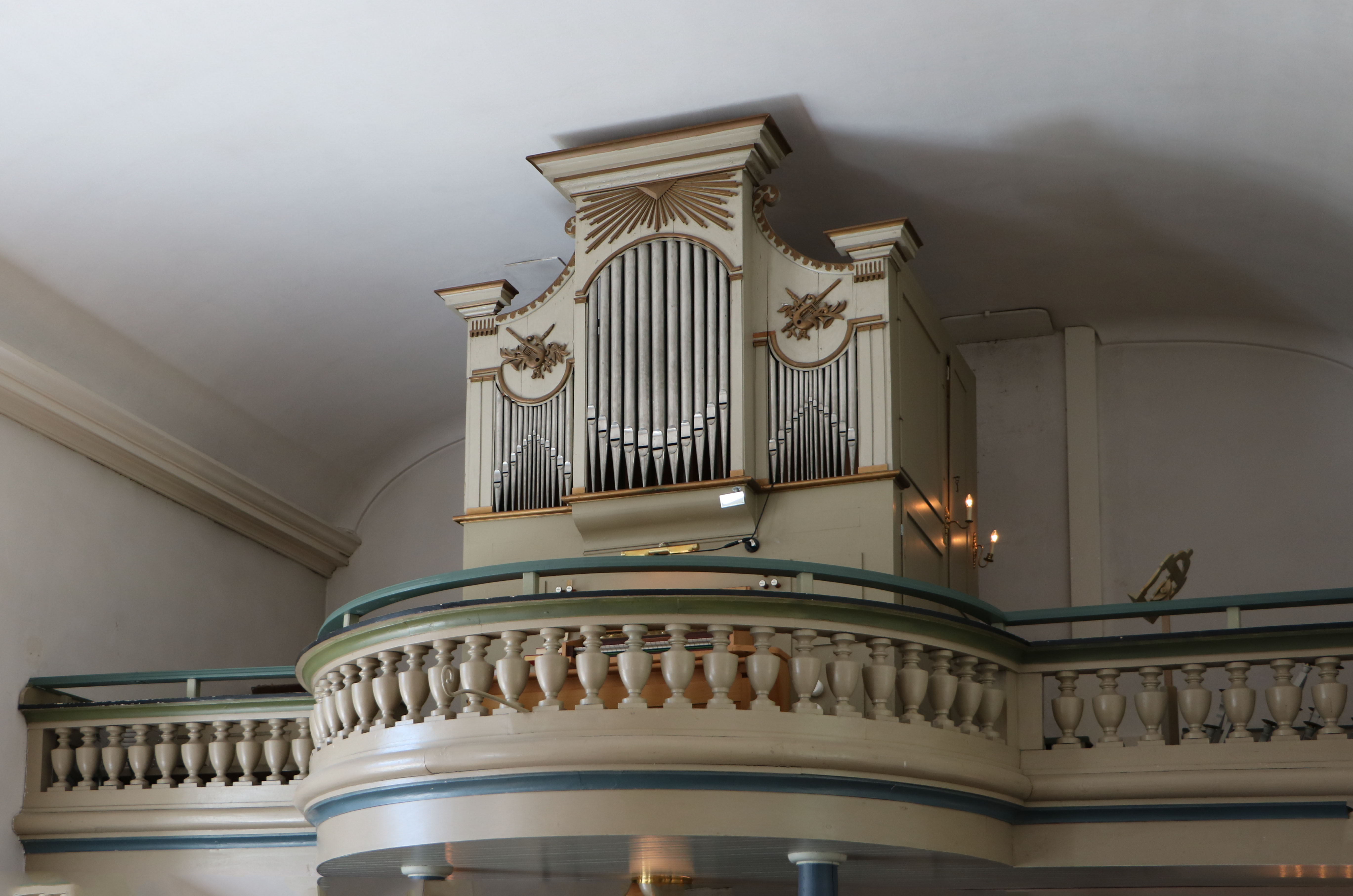 Hjortsberga Church. The organ